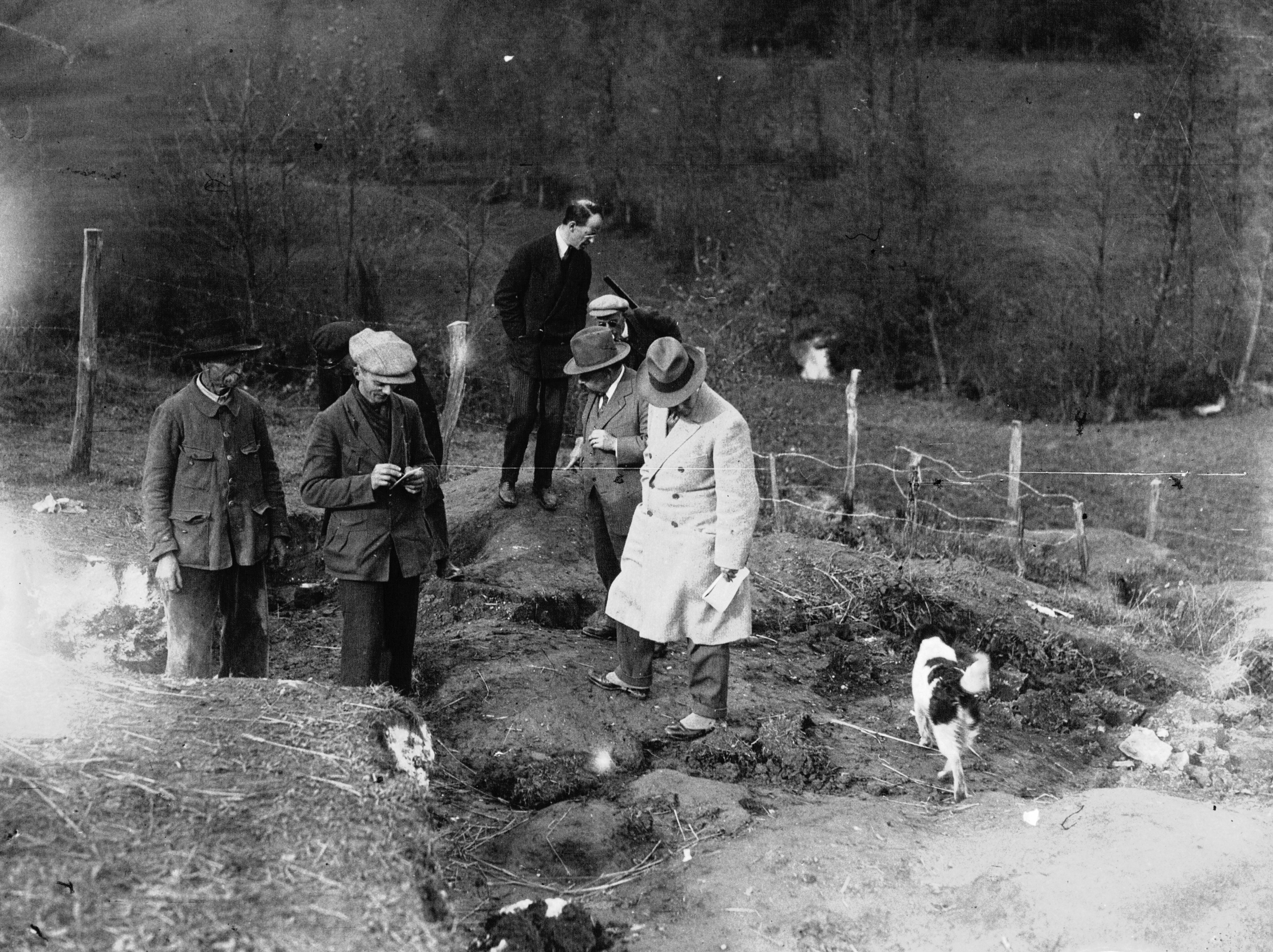 Excavation at Glozel (Ferrières-sur-Sichon, Allier, France).